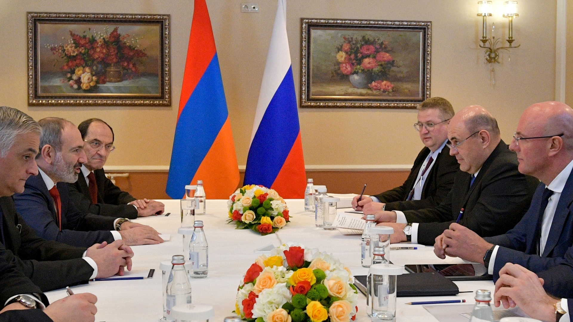 Mikhail Mishustin’s meeting with Prime Minister of Armenia Nikol Pashinyan